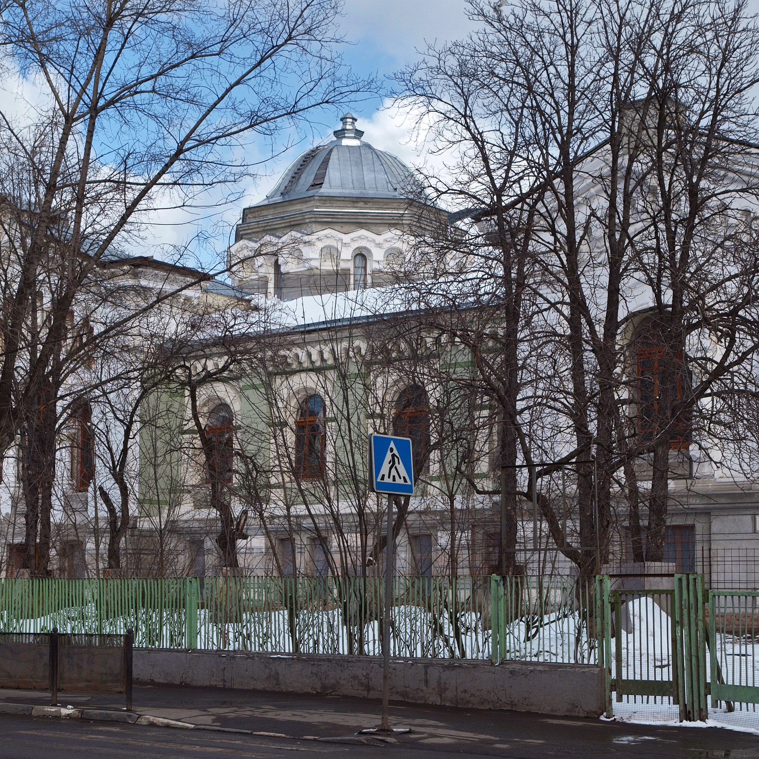 Verkhnaya Krasnoselskaya Street, Moscow. The former Geyer Almshouse.